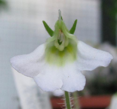 Petrocosmea rosettifolia, flower, Botanical garden Heidelberg